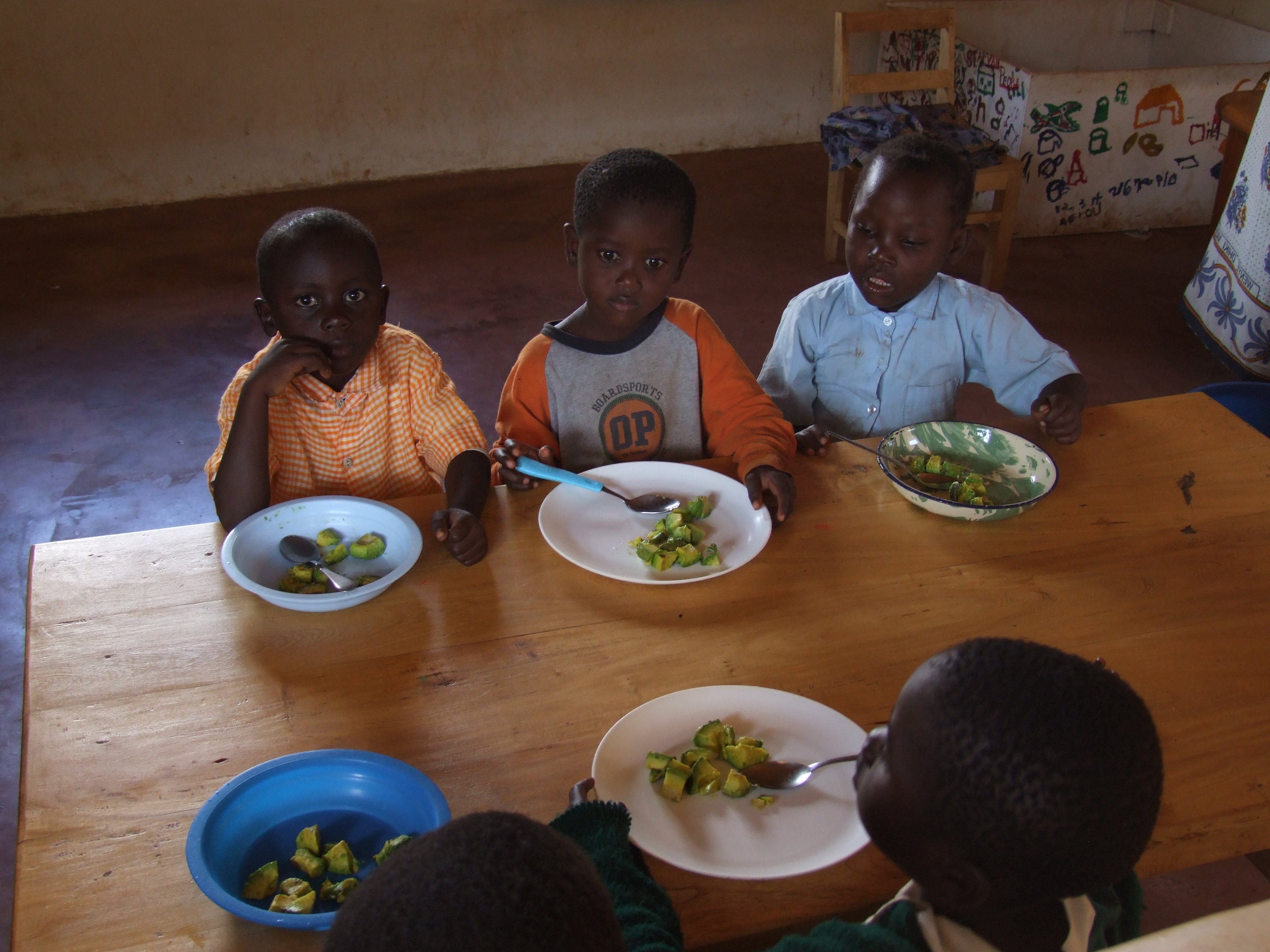 Orphan children in the Nyota daycare center in Lwala/Kenya are having avocado for dinner